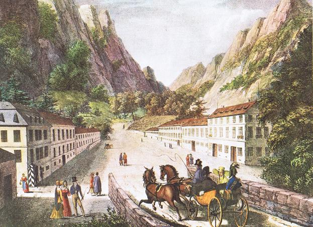 Băile Herculane 1824